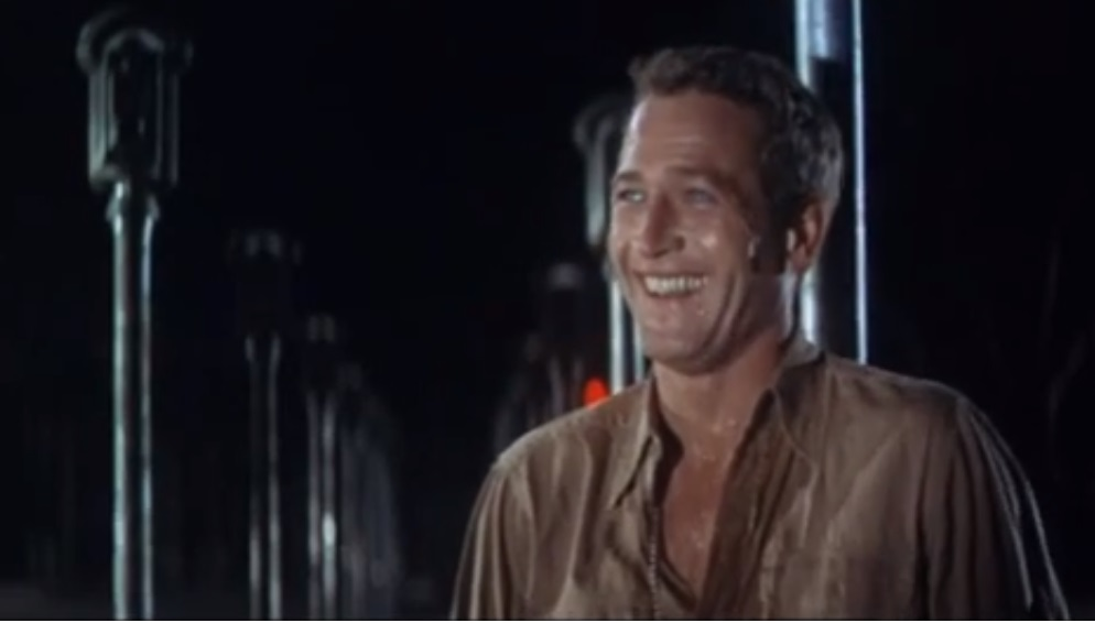 Luke is arrested by the police after cutting the heads off parking meters.